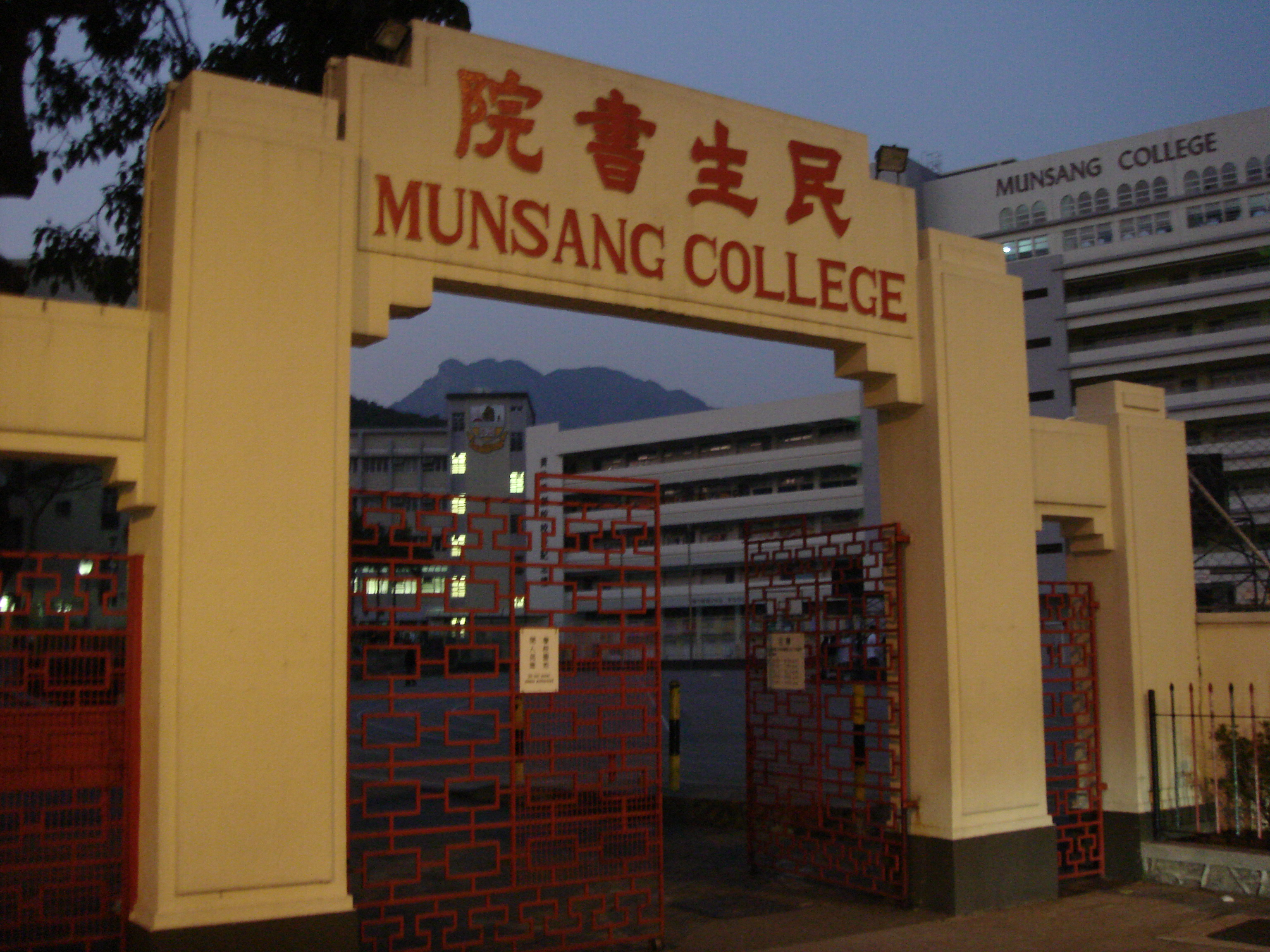 The main entrance of Munsang College